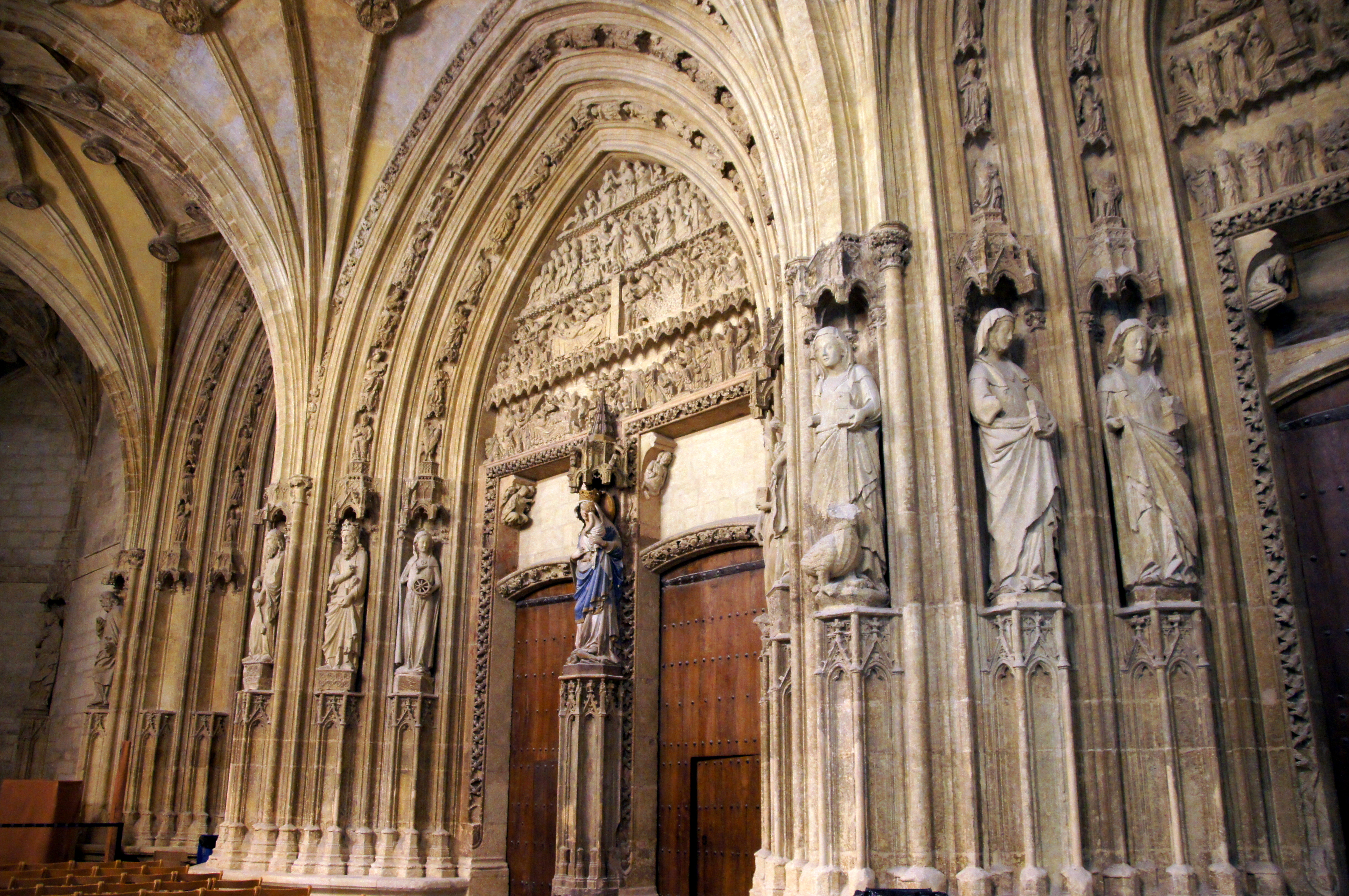 Santa Maria Cathedral in Vitoria (The "Old Cathedral")